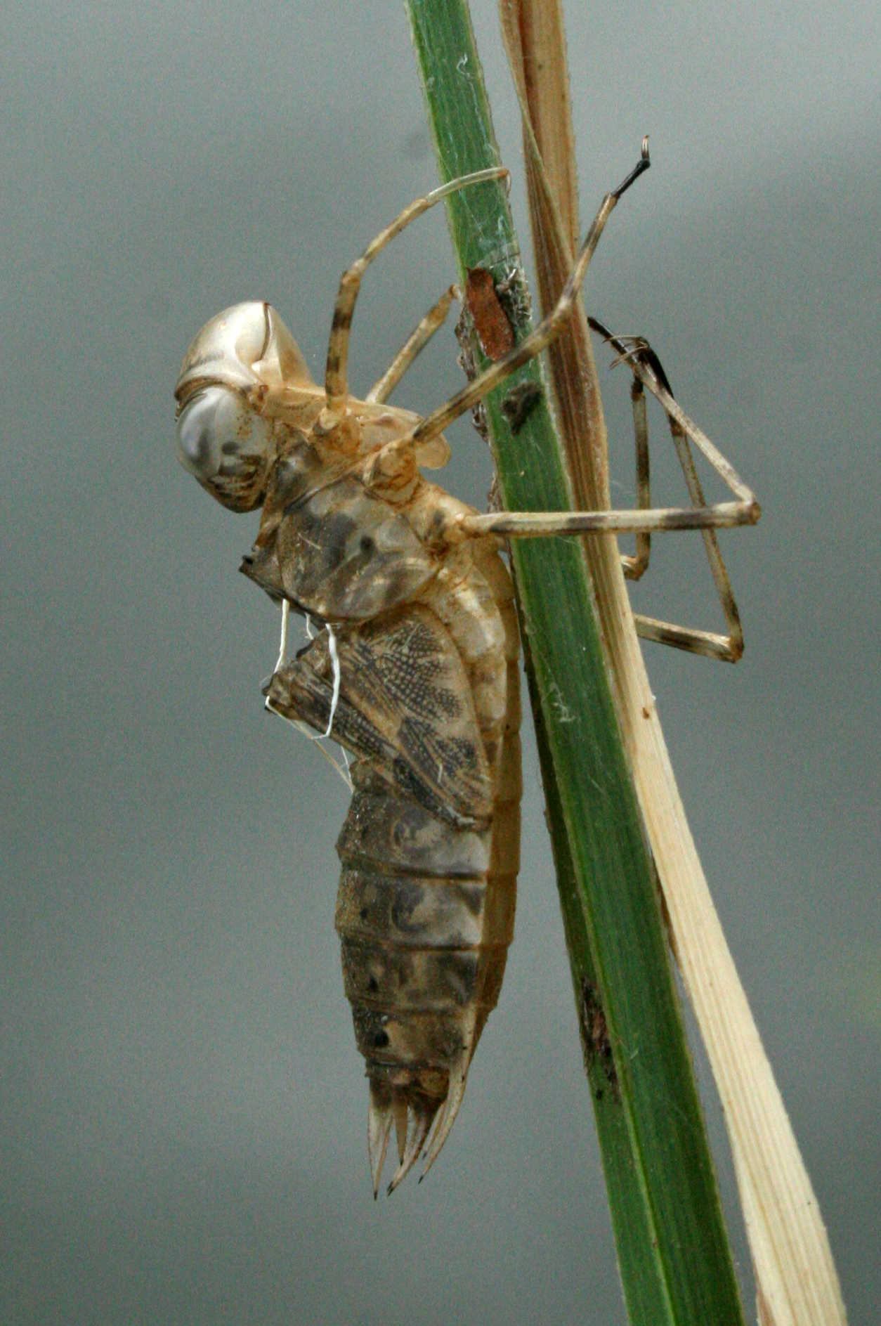 Pantala flavescens, excuvia from Thiruvannamalai